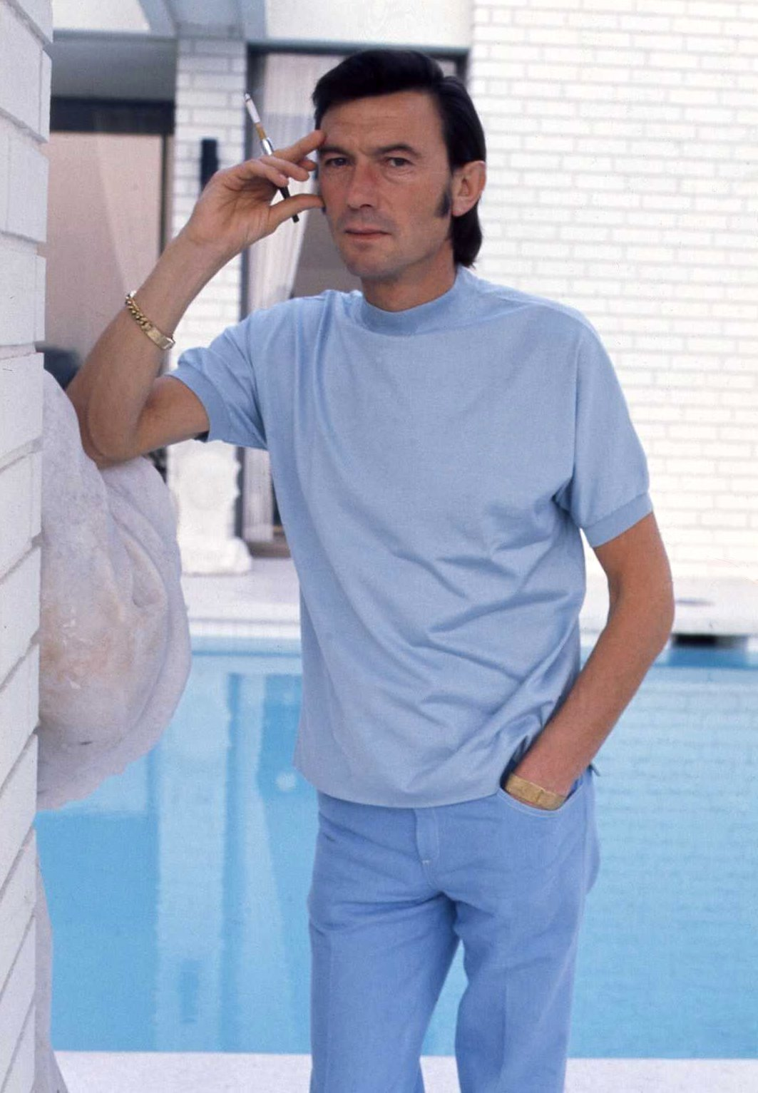 Laurence Harvey by his pool